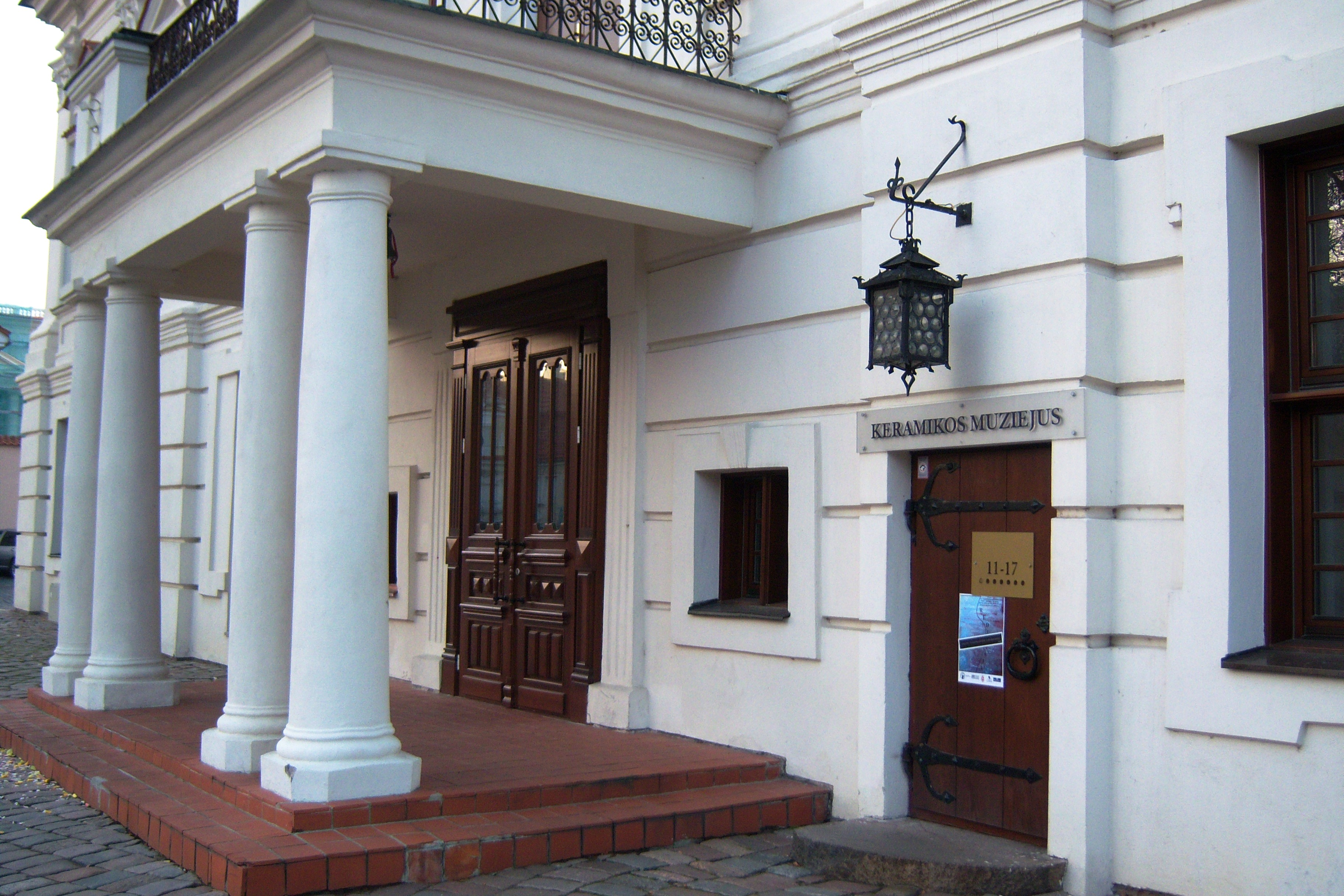 Ceramics Museum in the town hall, Kaunas, Lithuania.